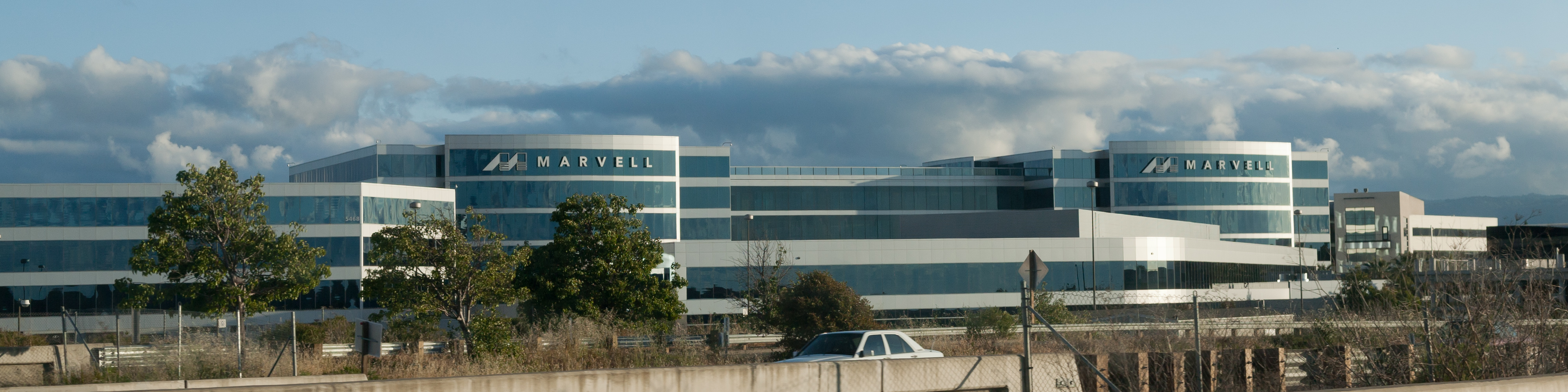 The operating headquarters of Marvell Technology Group in Santa Clara, California, as viewed from CA-237.